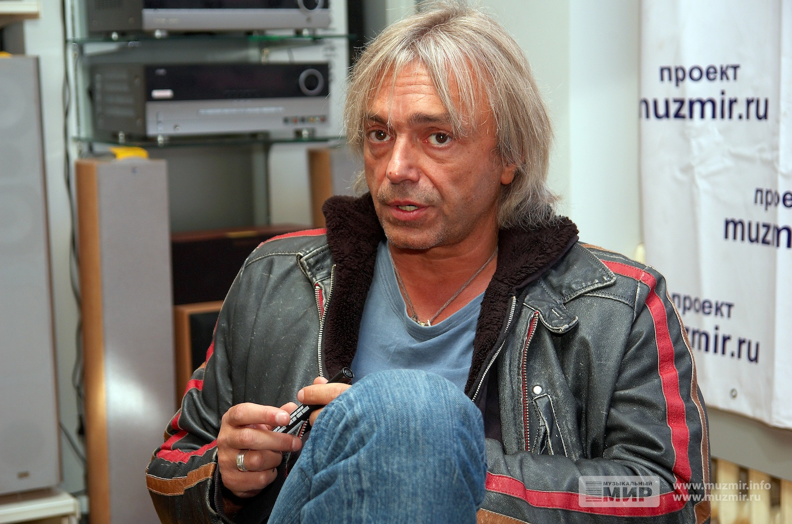 Konstantin Kinchev. Russian rock band Alisa at Syktyvkar.